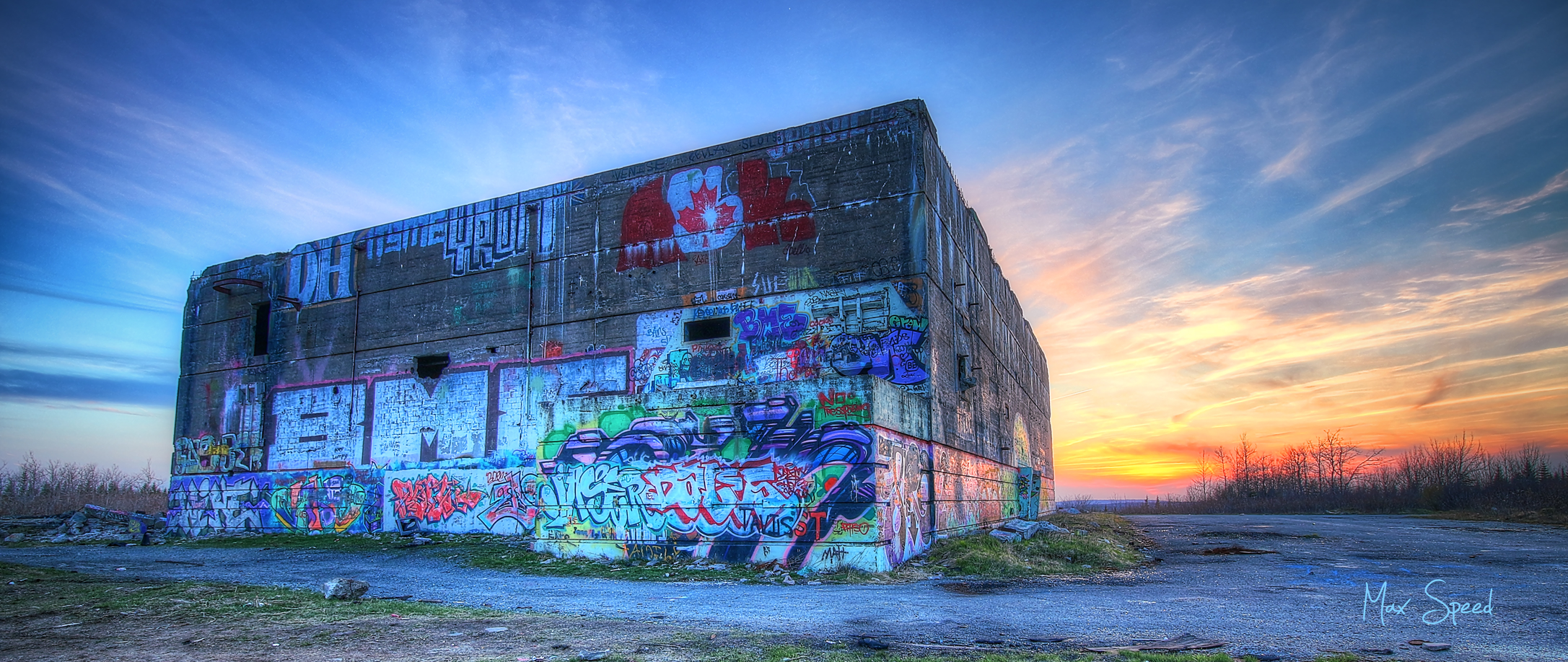 Beaver Bank Radar Base at Sunset